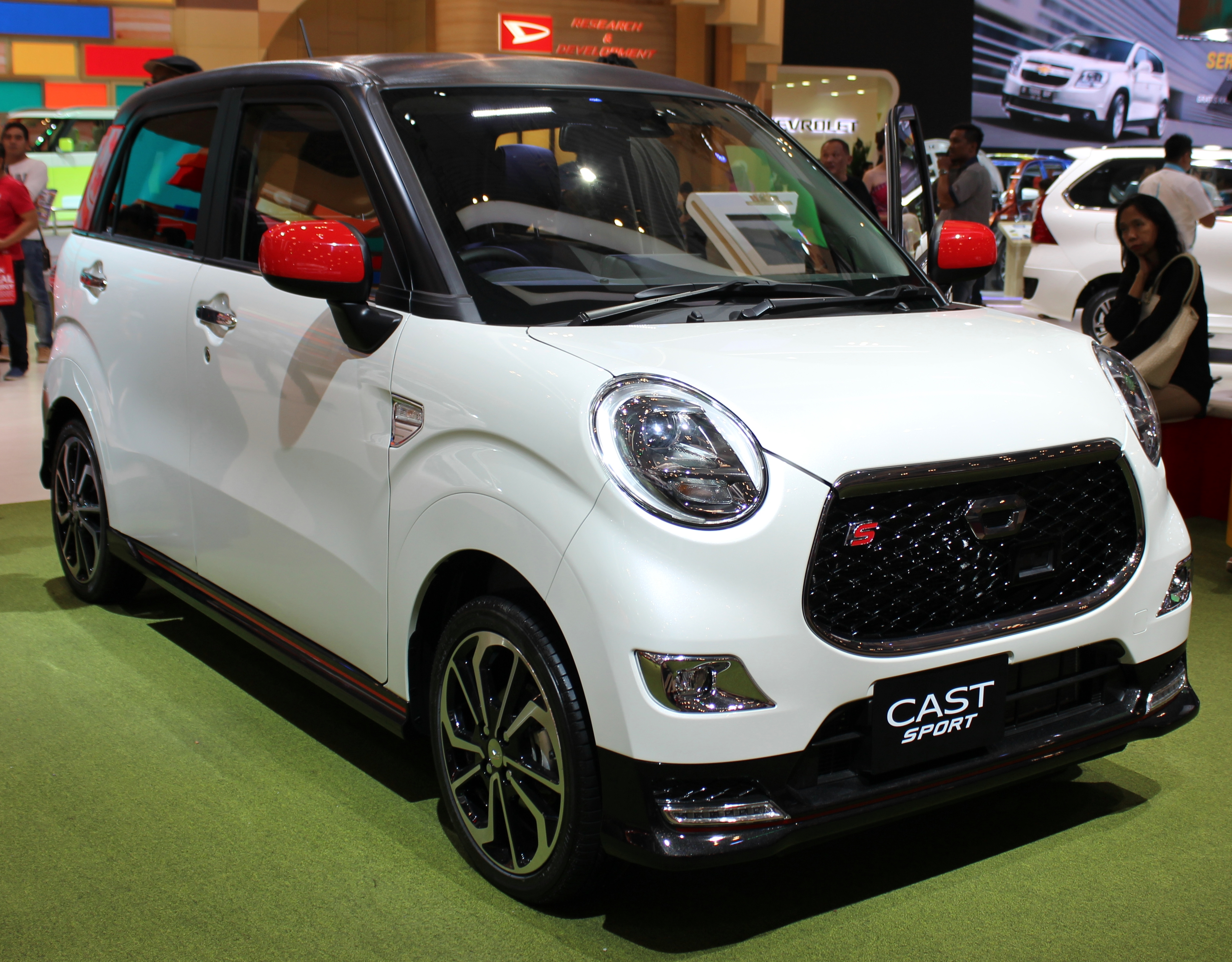 2015 Daihatsu Cast Sport "SA II" hatchback (LA250S) photographed at the 2016 Gaikindo Indonesia International Auto Show in South Tangerang, Banten, Indonesia.